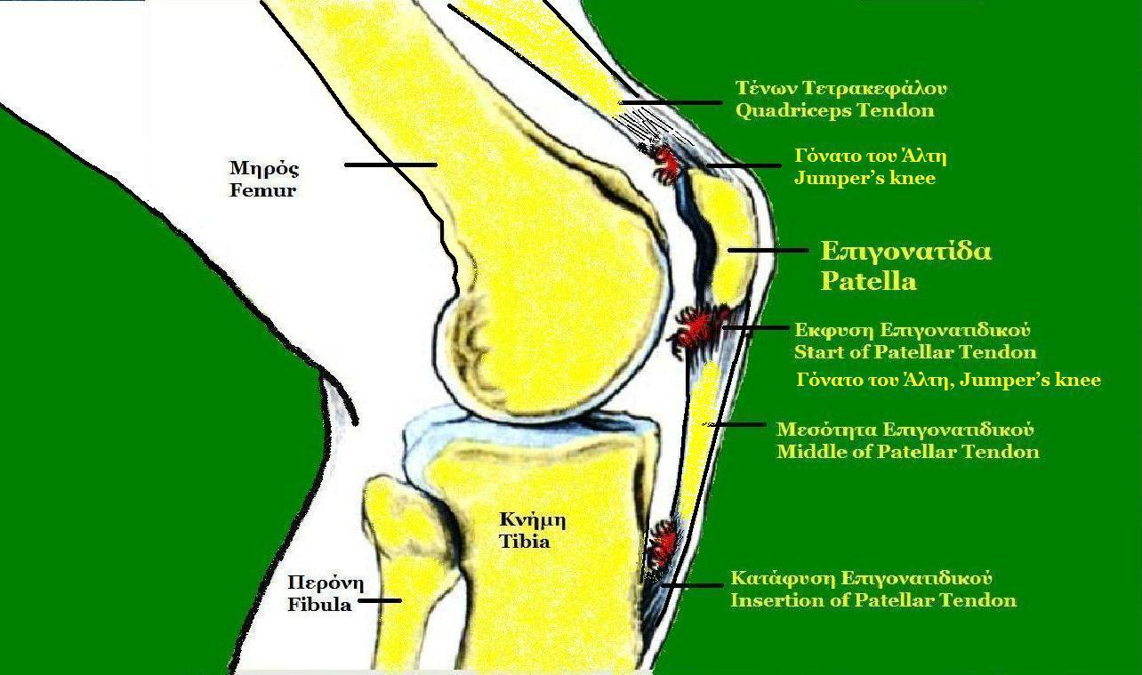 Patellar tendinitis